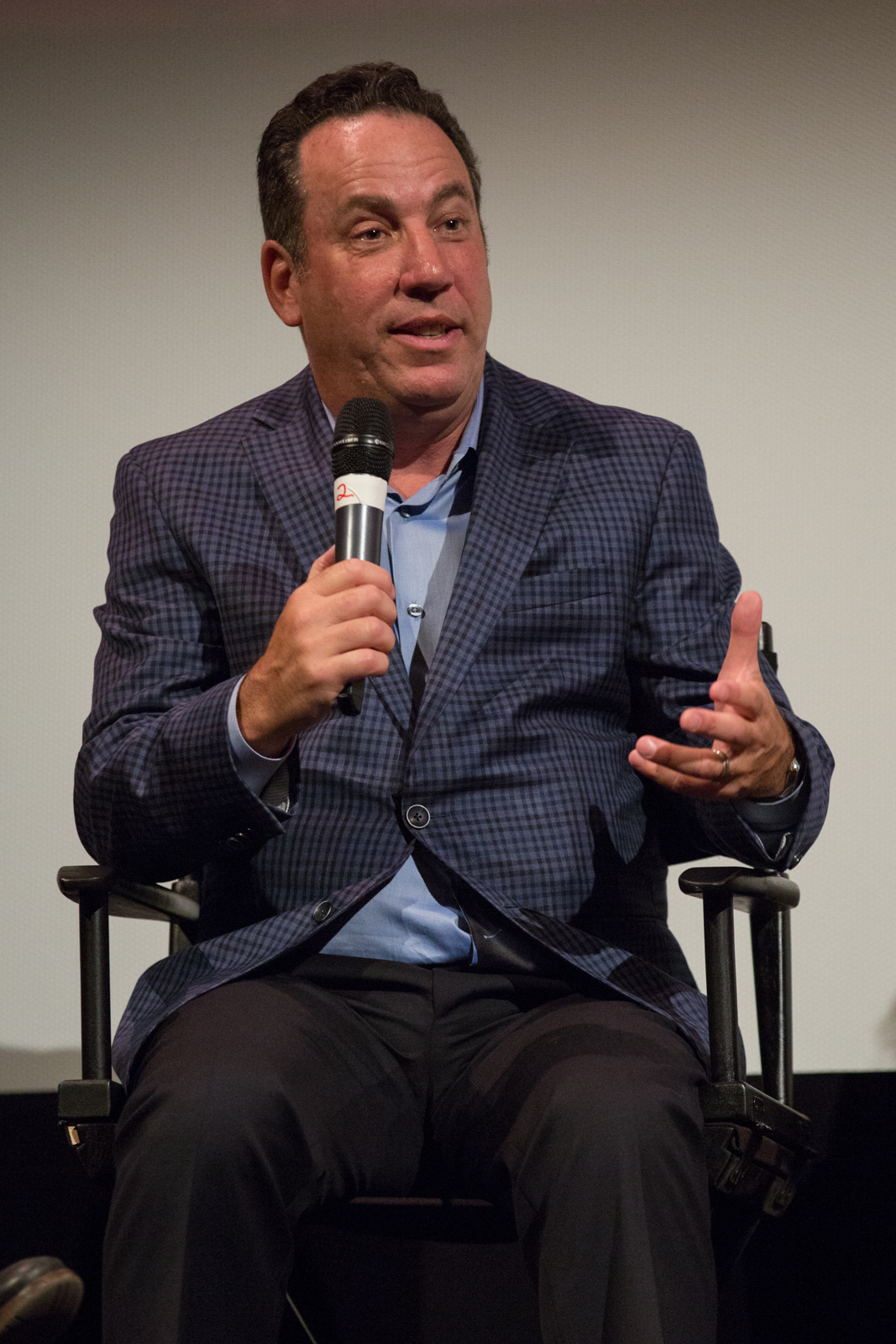 David T. Friendly at the ATX Television Festival presentation of the TV show "Queen of the South"